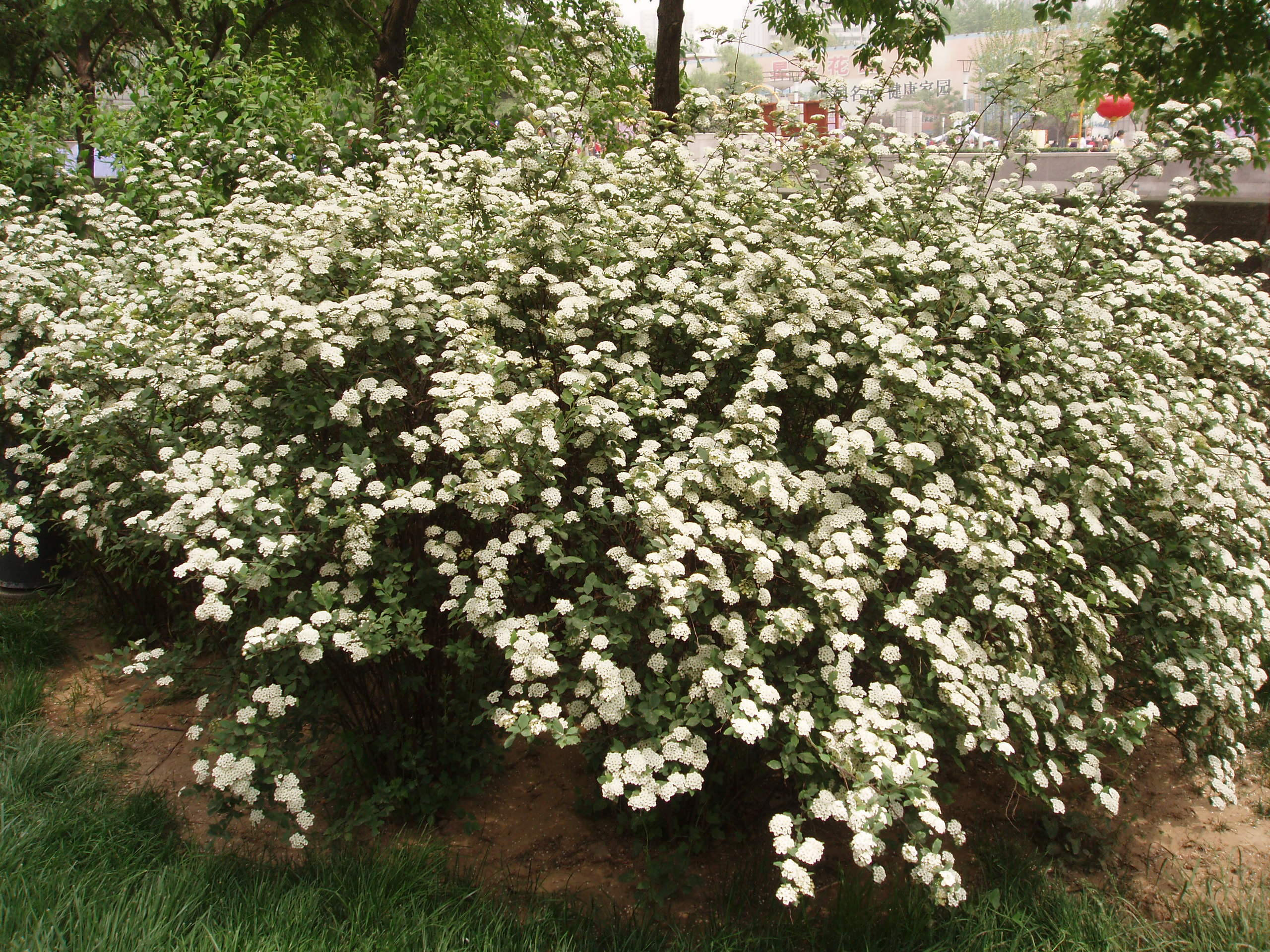 Snow White Vanhouttei